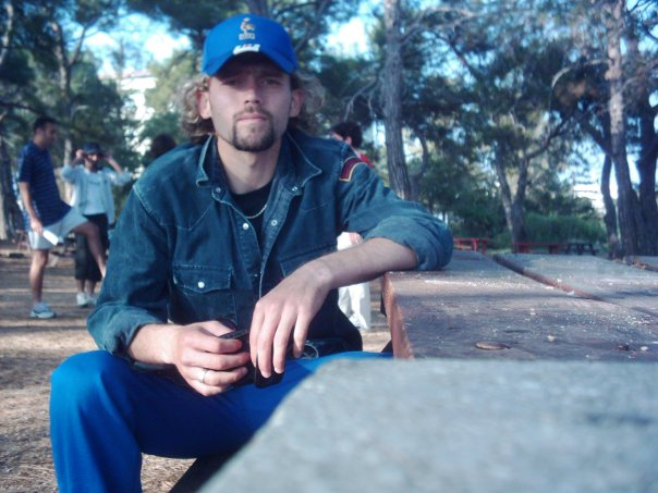 Şahin Gökçe is a Turkish footballer.